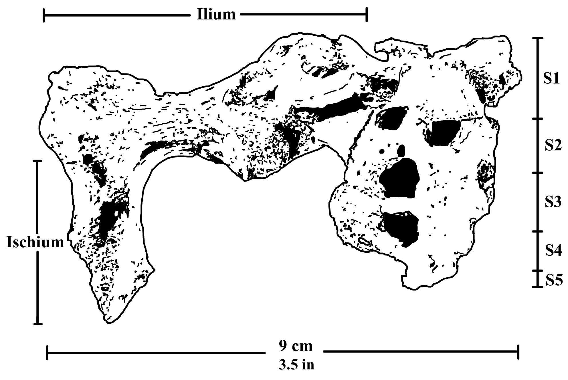 Ventral view of the DNH 43 pelvis and sacrum of Paranthropus robustus based on the image on Drawn with Notability for iOS